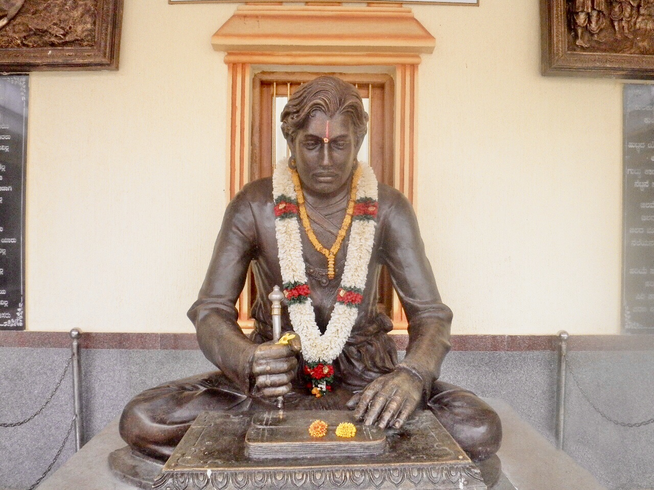 The saint at his work